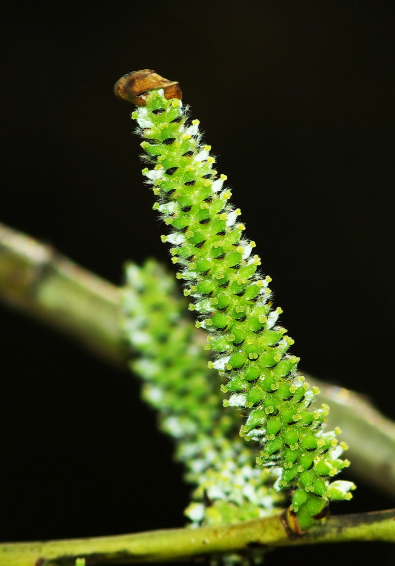 Salix alba - female inflorescence